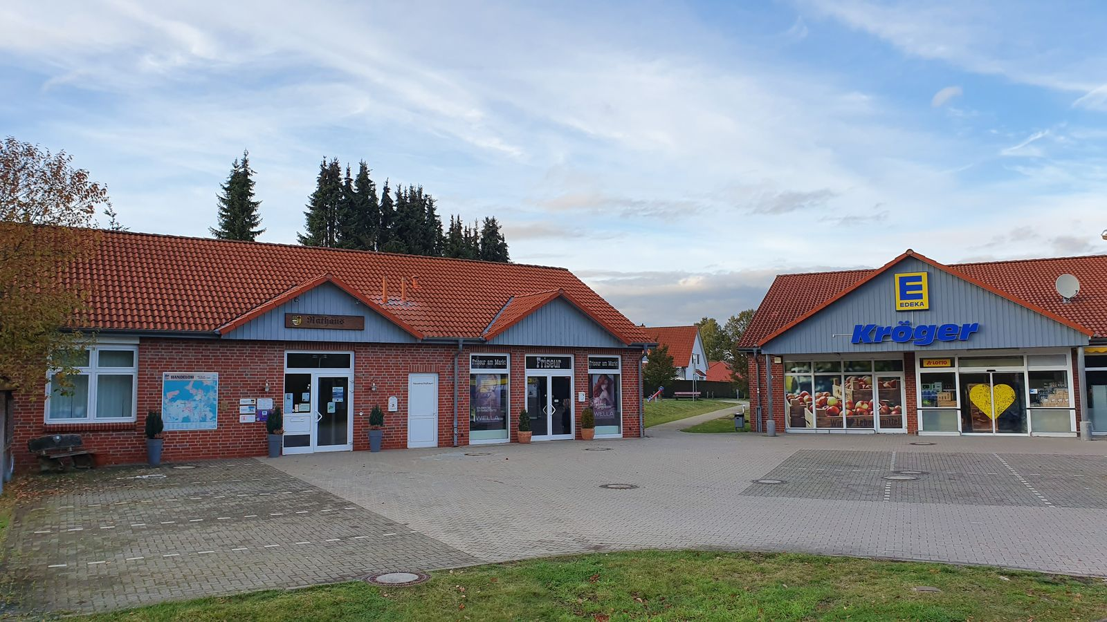 Handeloh cityhall